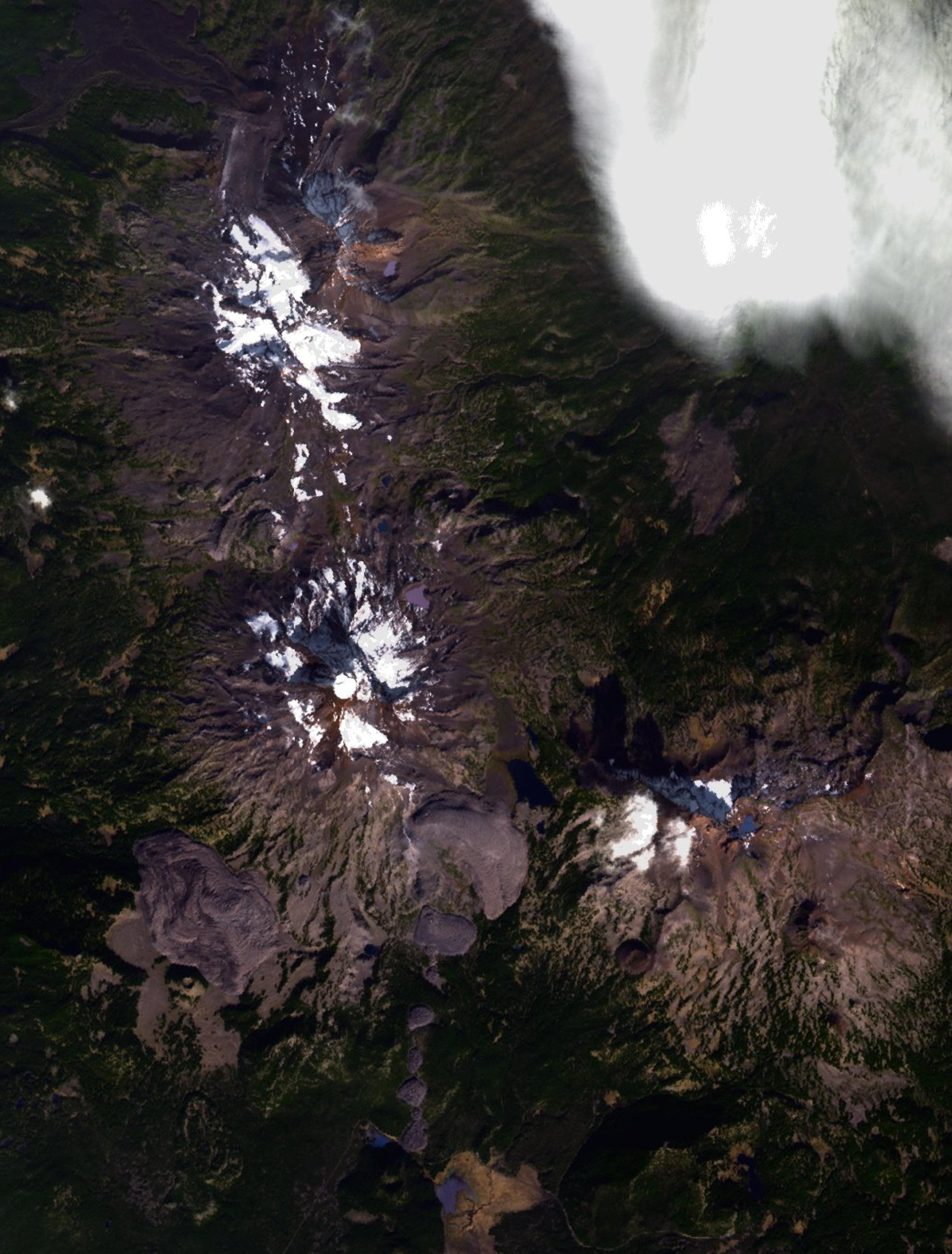 Satellite image of Three Sisters. Approximate geographic limits of the image : * N : 44.2 * S : 44.03 * E : -121.64 * W : -121.8 Projection : conique conforme de Lambert, méridien central -121.745, 1er/2nd parallèles : 43 / 45.5 (+proj=lcc +lat_1=43 +lat_2=45.5 +lat_0=41.75 +lon_0=-121.745 +x_0=400000 +y_0=0 +ellps=GRS80 +towgs84=0,0,0,0,0,0,0 +units=m +no_defs) ; système géodésique NAD83